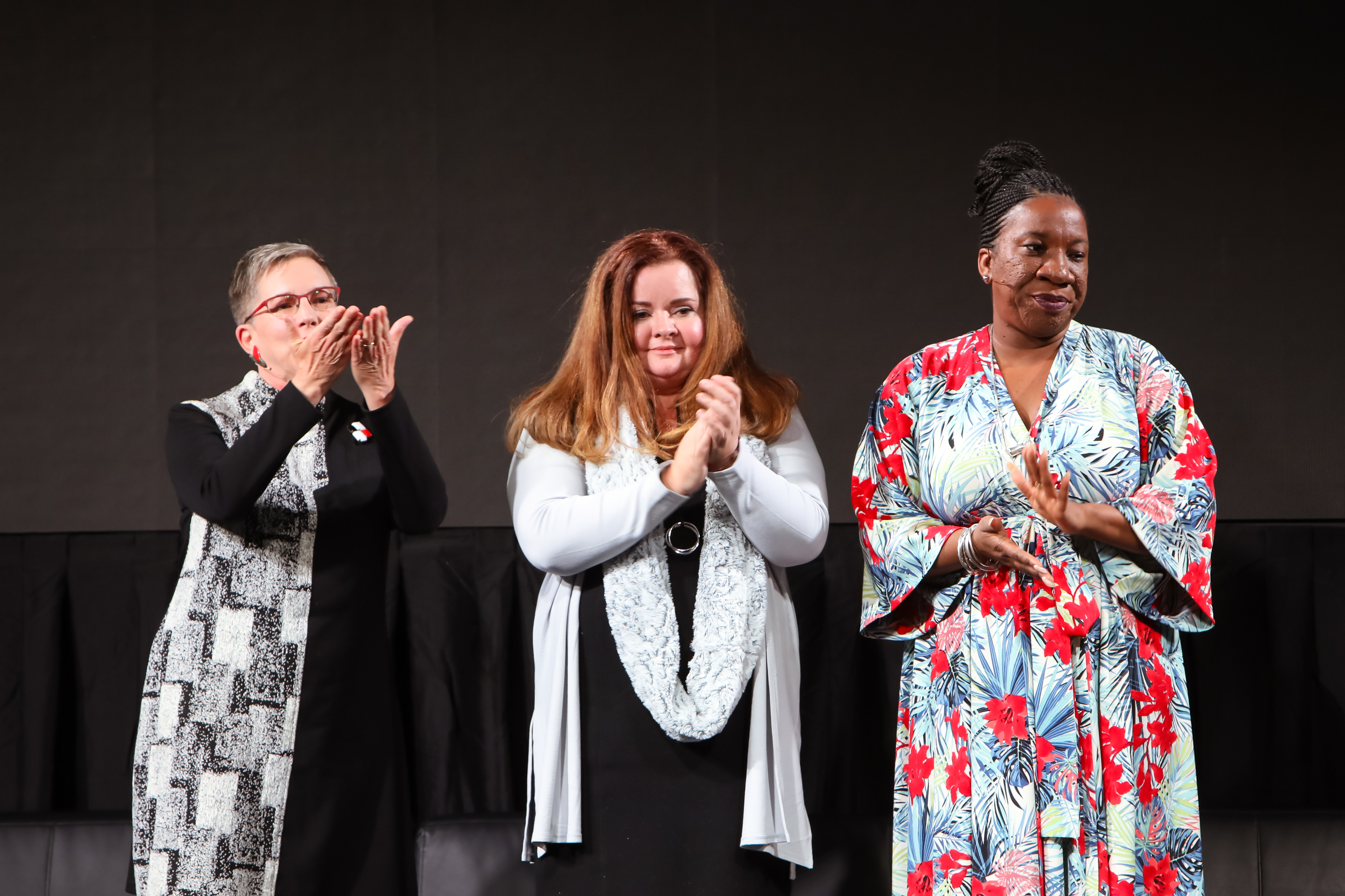 The winners of the 2018 Disobedience Awards. From left to right, Sherry Marts, BethAnn McLaughlin, and Tarana Burke. Credit: Jon Tadiello Selected images from the 2018 Disobedience Award event at the MIT Media Lab. Please visit for even more photos.